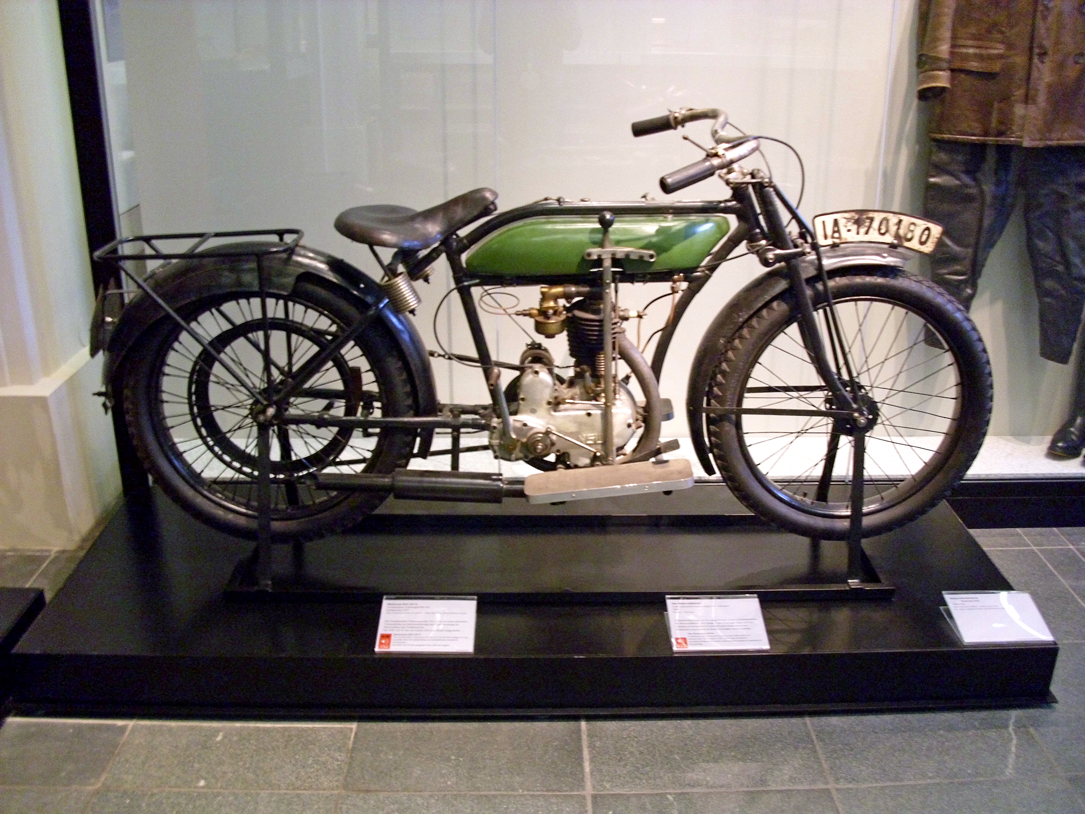 Motorcycle NSU 251 R (1927) "German Historical Museum" in Berlin